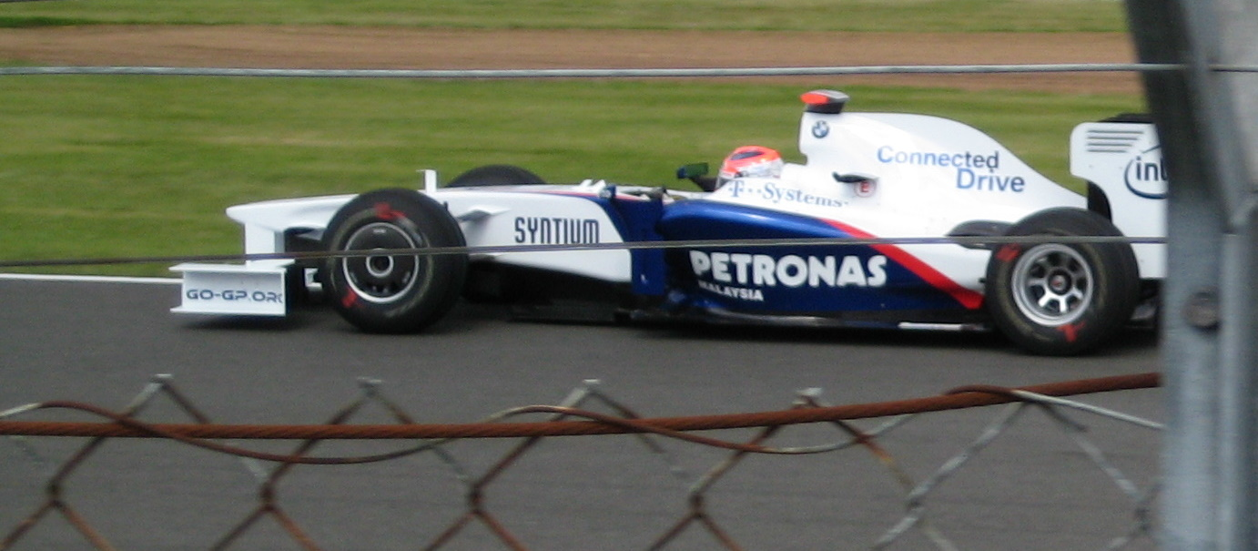 Robert Kubica at the 2009 British Grand Prix, Silverstone, UK.